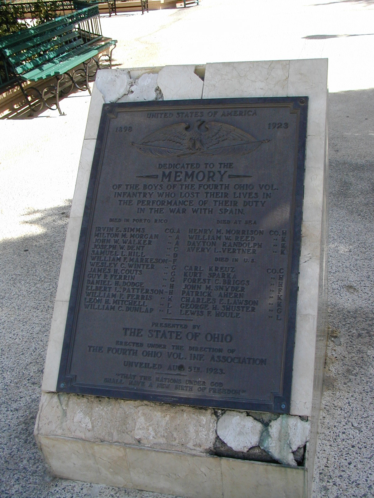 Guánica, Puerto Rico monument to U.S. soldiers, Ohio Infantry, Spanish-American War 1898